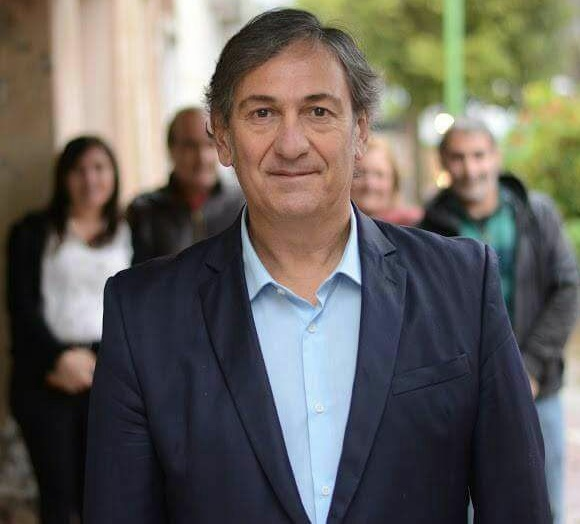 Concejal de Suipacha